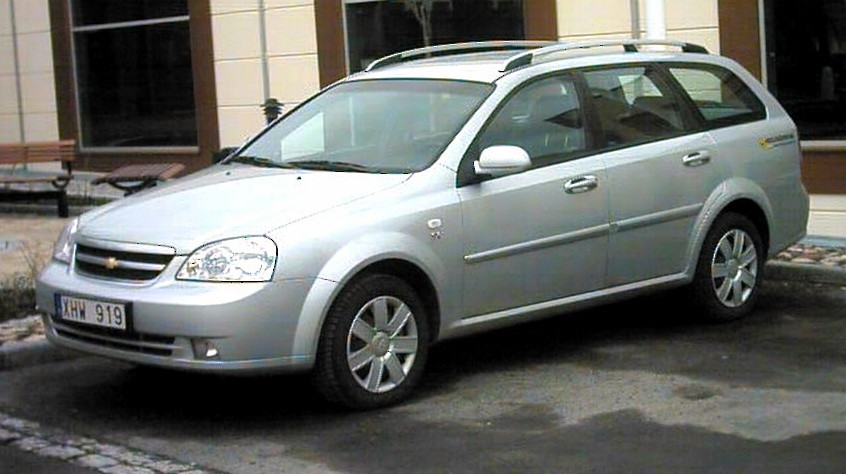 2006 (considered a 2005 by the Swedish registration authorities, built September 2005) Chevrolet Nubira Kombi photographed at Holmgrens in Jönköping 1 april 2006. GM Europe generally refers to this model (KLAN NW1/346) as a 2006 model, as also indicated by the tenth digit in the chassis number; unlike the regular 2005s it meets the Euro 4 emissions rules. Chassis number KL1NF356J6K272403. 15998cc, 80kW